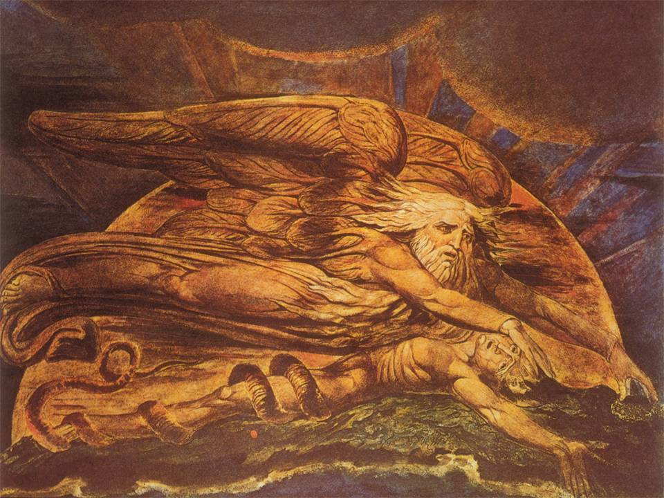 Blake's picture